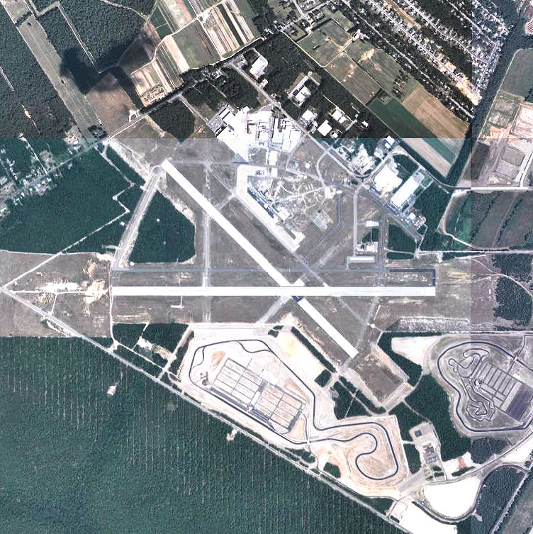 Millville Municipal Airport - New Jersey